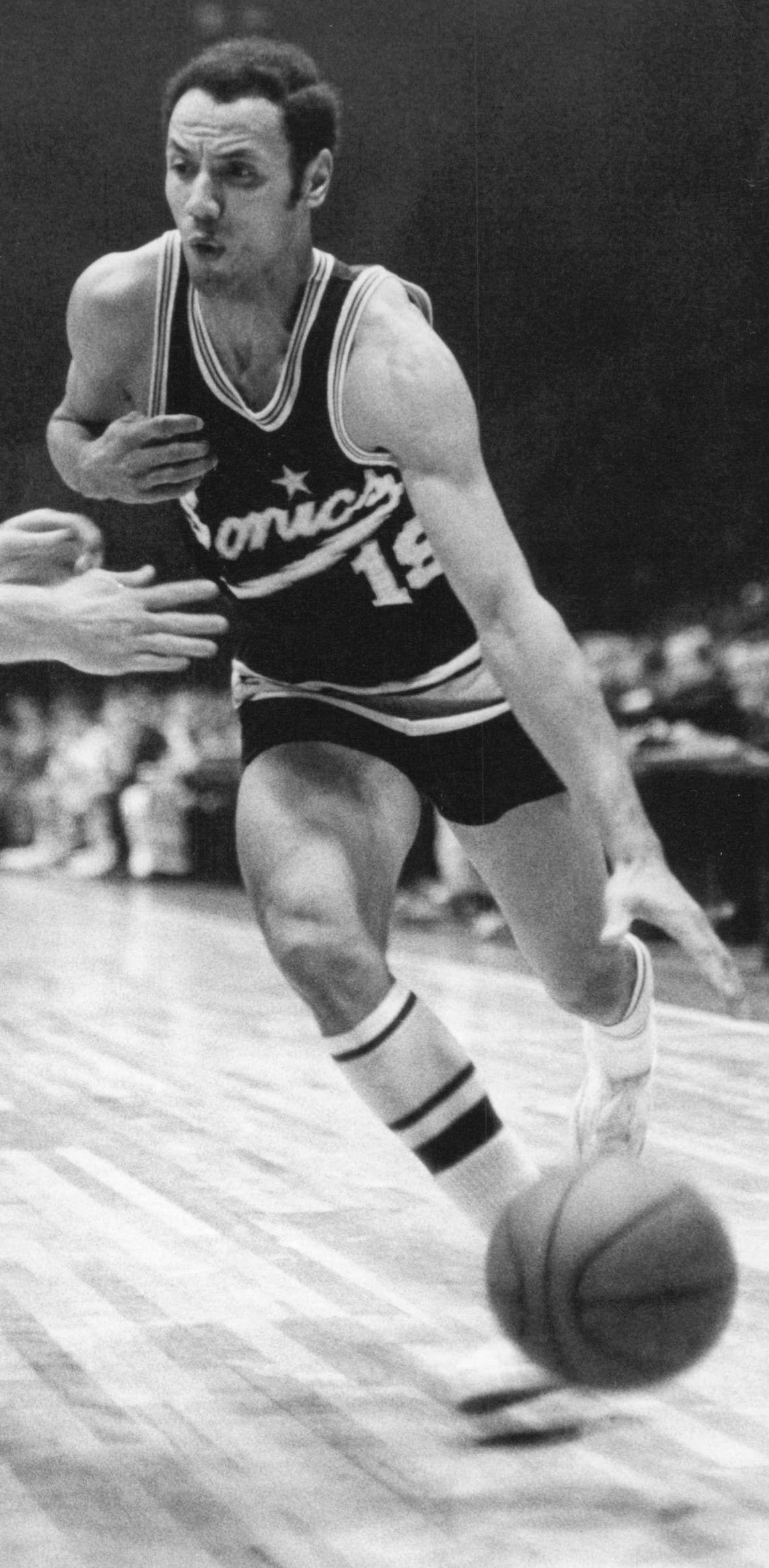 Professional basketball player Lenny Wilkens